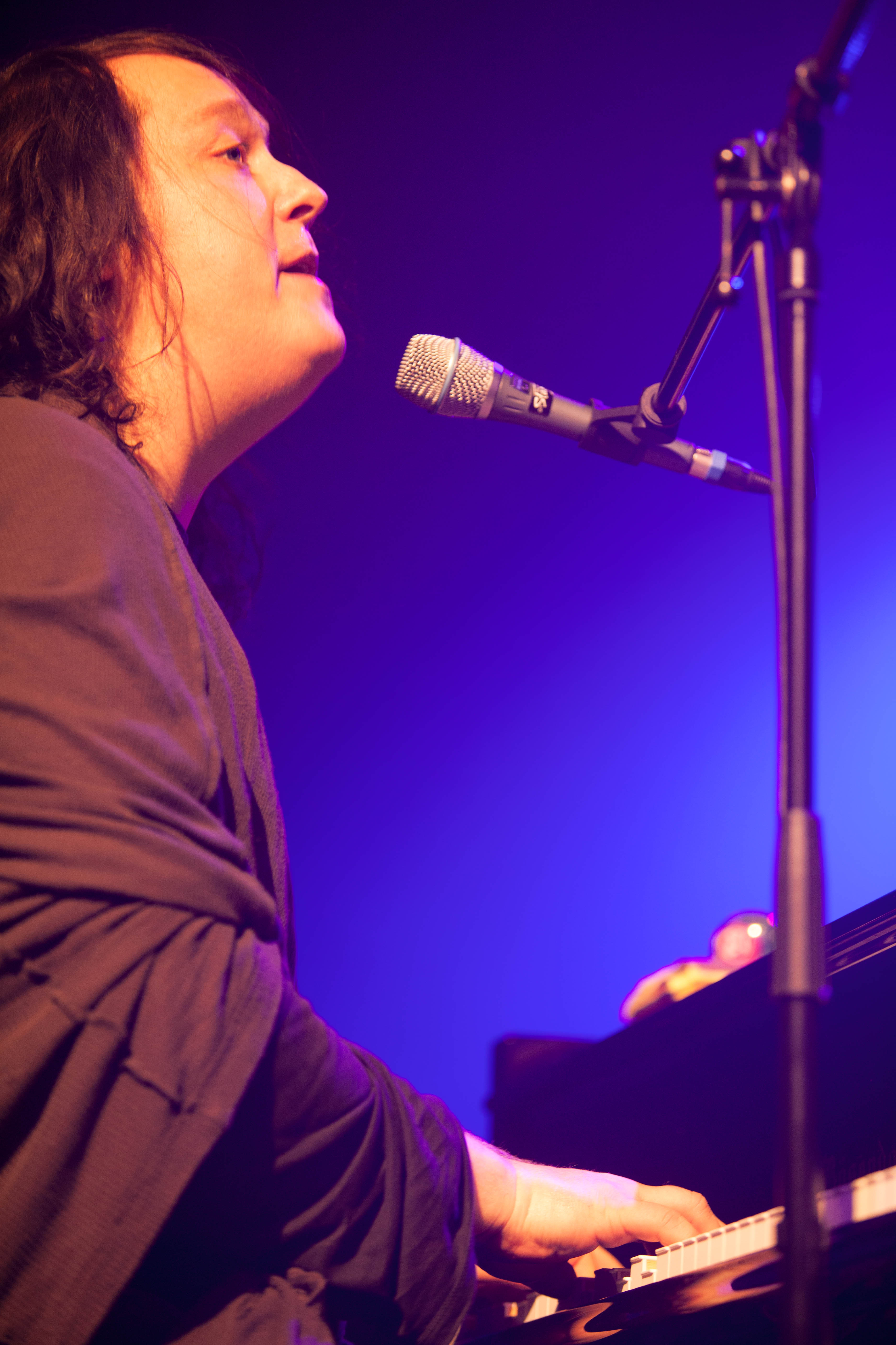 Antony Hegarty (with Sissy Nobby) at Donaufestival, Krems, Austria